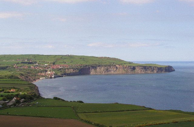 Robin Hoods Bay. Taken from MR: NZ962023 from the minor road looking NNW towards Robin Hoods Bay.